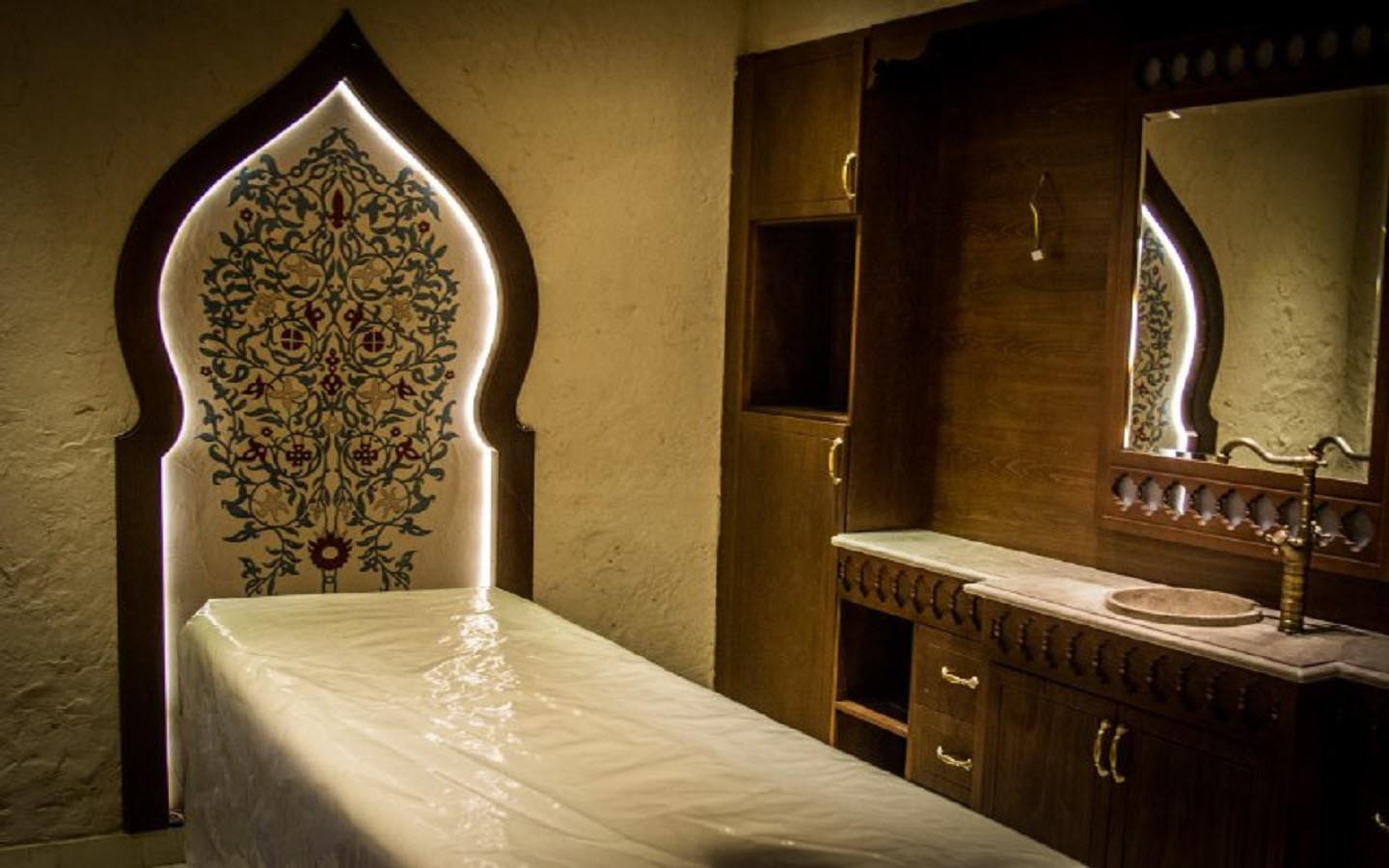 plumeria spa, ocean water park